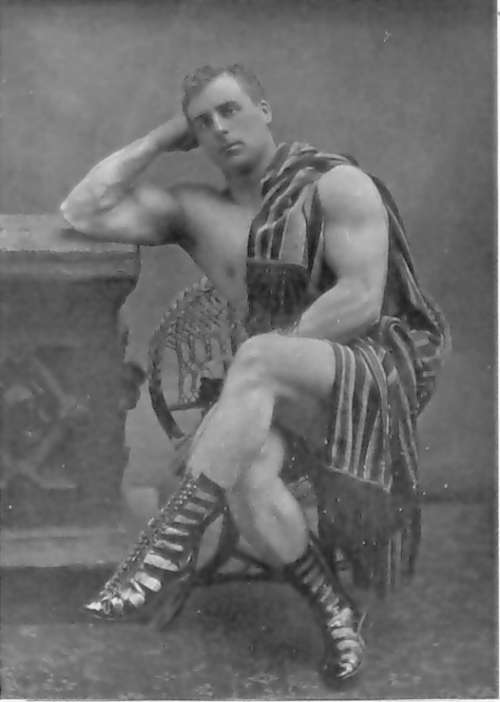 Publicity photograph of William Bankier (1870-1949)